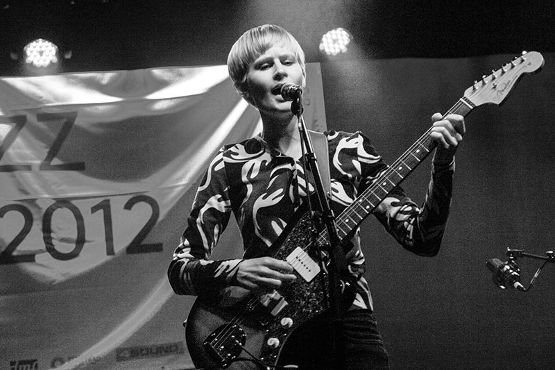 Jenny Hval in Aarhus, Denmark 2012